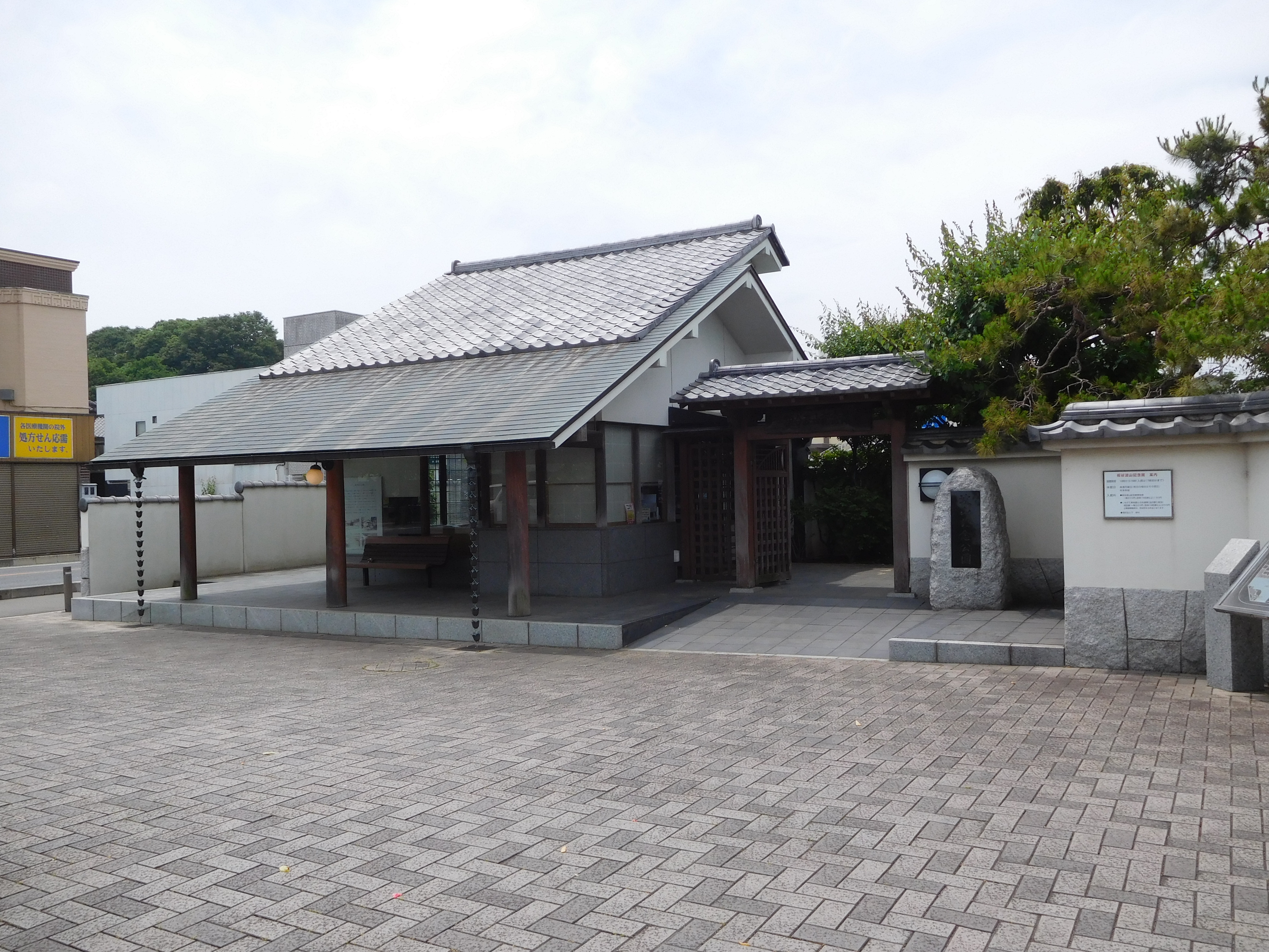 This is the Memorial Museum of Itaya Hazan in Chikusei, Ibaraki, Japan.